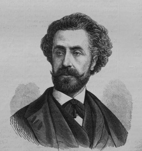 Portrait of Lajos Bignio